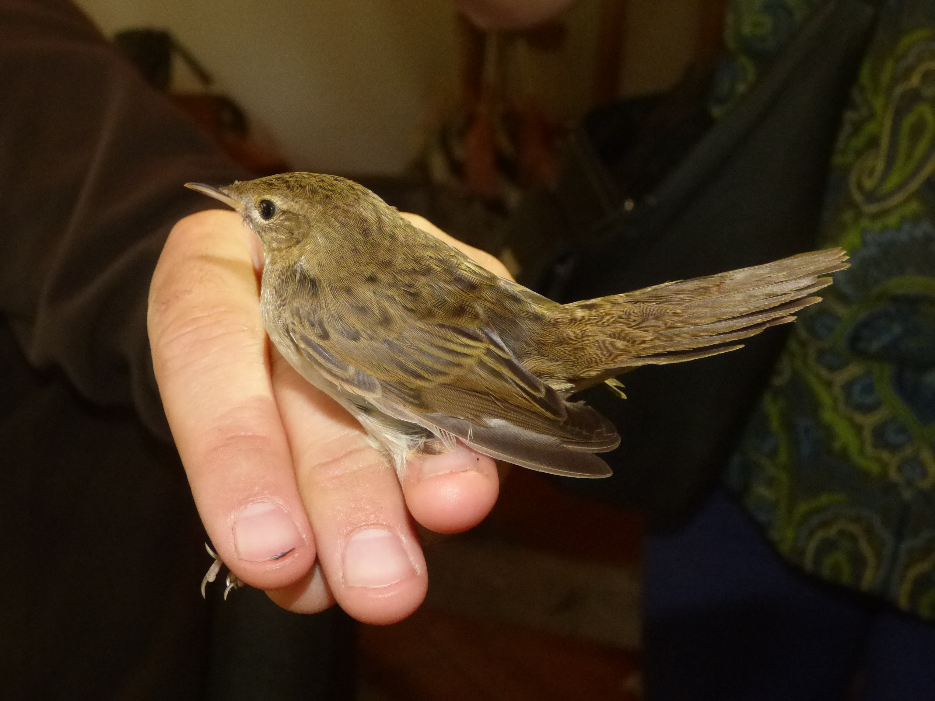 Gyűrűzött réti tücsökmadár az Ócsai Madárvártán